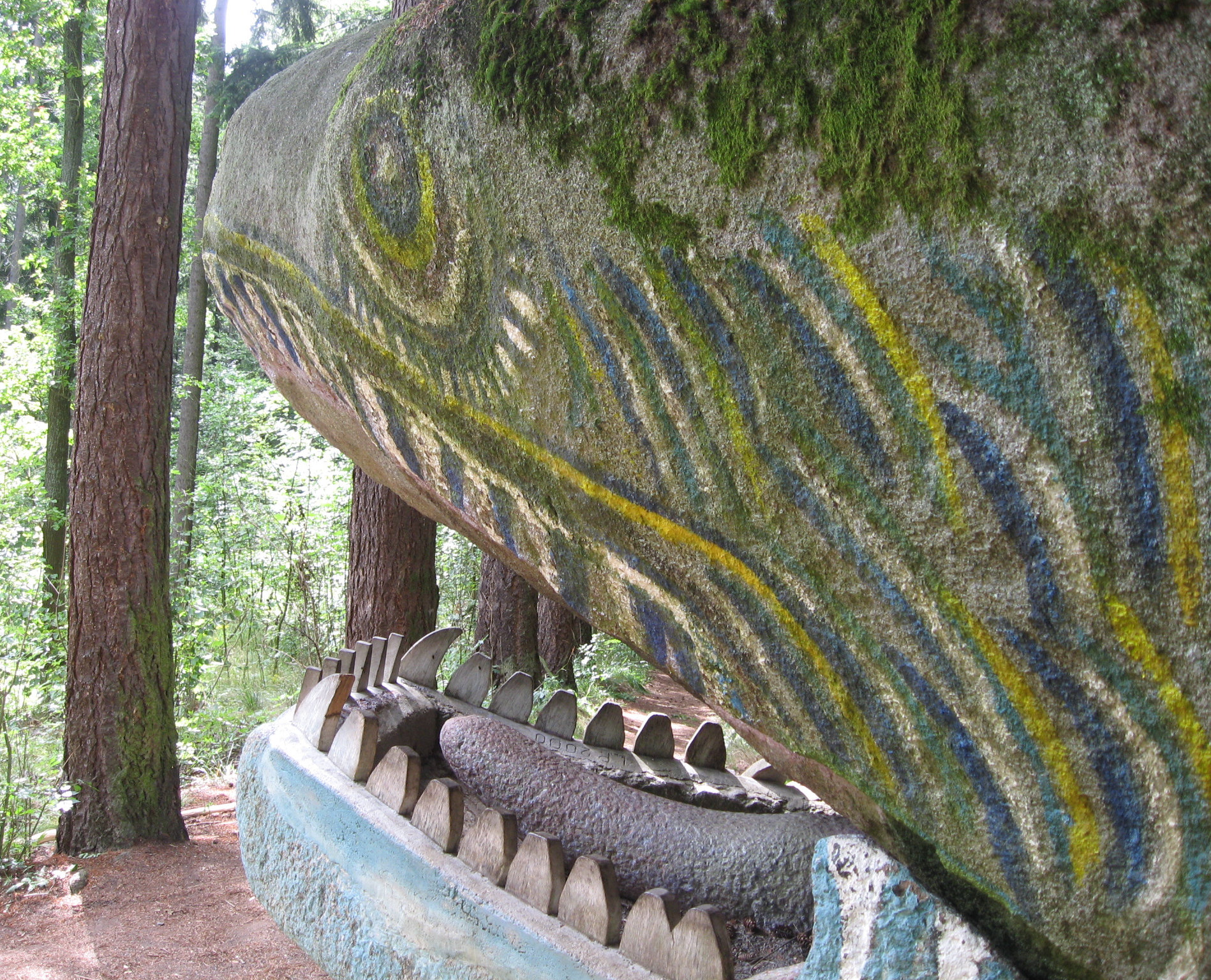 Detail of dragon head. Statue in a fairytale forest with artificial ruins Prašivice, Klatovy District, Czech Republic